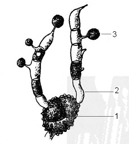 Germinating teliospore Triphragmium ulmariae